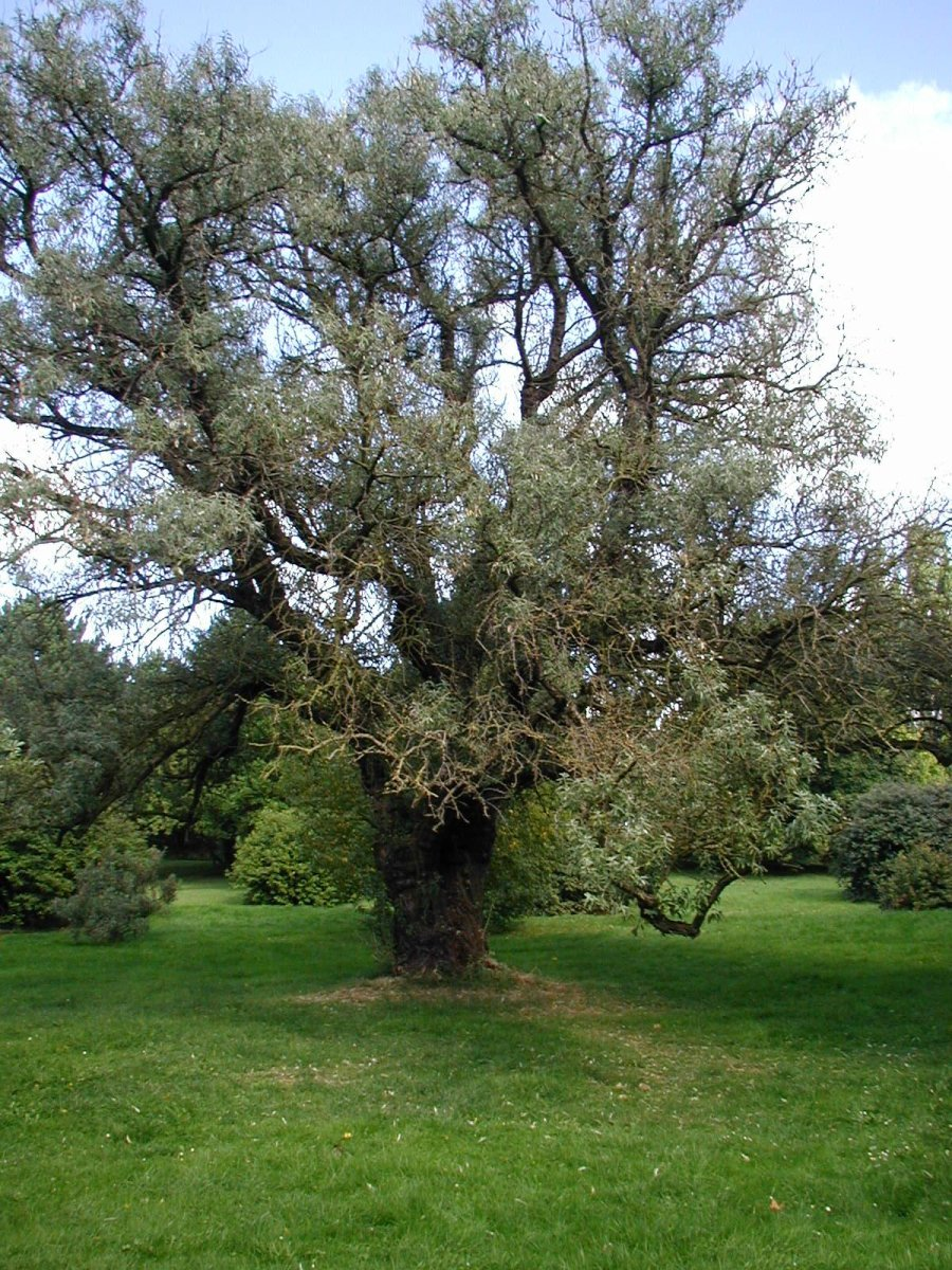 Elaeagnus angustifolia: Habit (as seen in Denmark). Photo: Sten Porse Removed watermark read: Sten Porse 09-2001